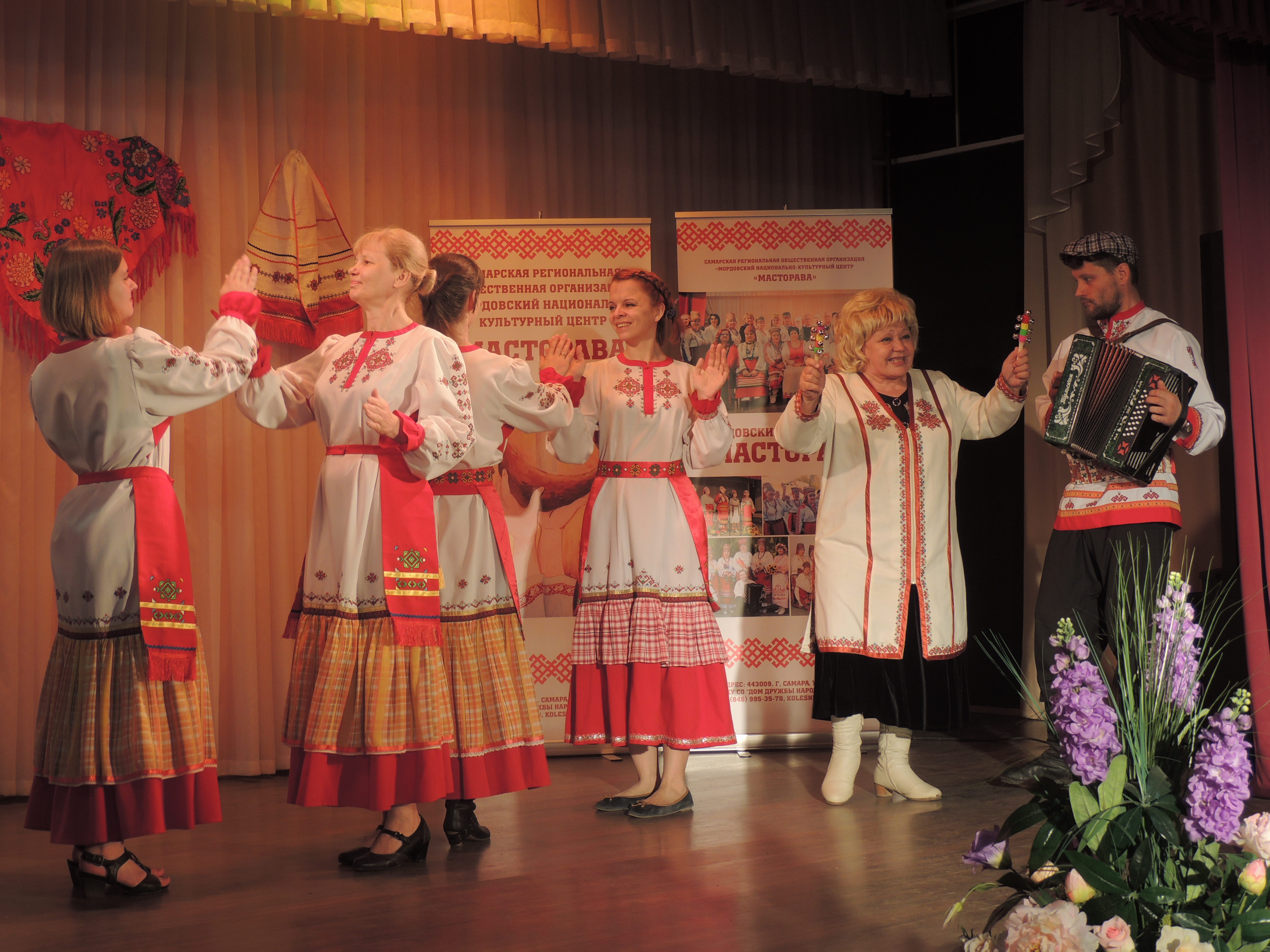 Performance of the Chuvash society. XIX Regional festival «Spring of Mastorava» (erz. «Mastoravanj tundo»). «Friendship House of Peoples», Samara. May 21, 2017.